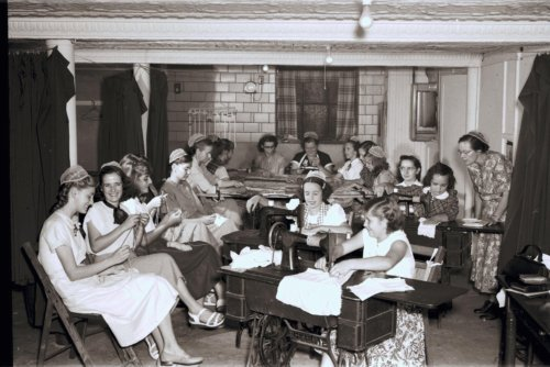 "Stitches of Cheer," The Junior Sewing Circle of the North Lima Congregation, North Lima, Ohio David S. Harnley August 11, 1952 from Mennonite Church USA Archives